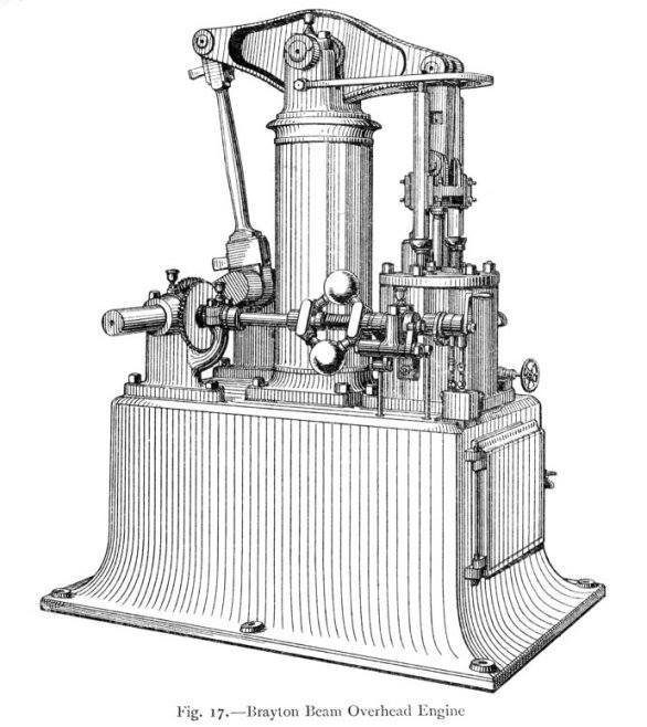 Brayton constant pressure oil motor 1875